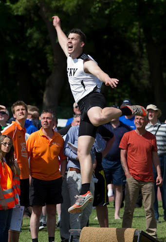 EK 2012